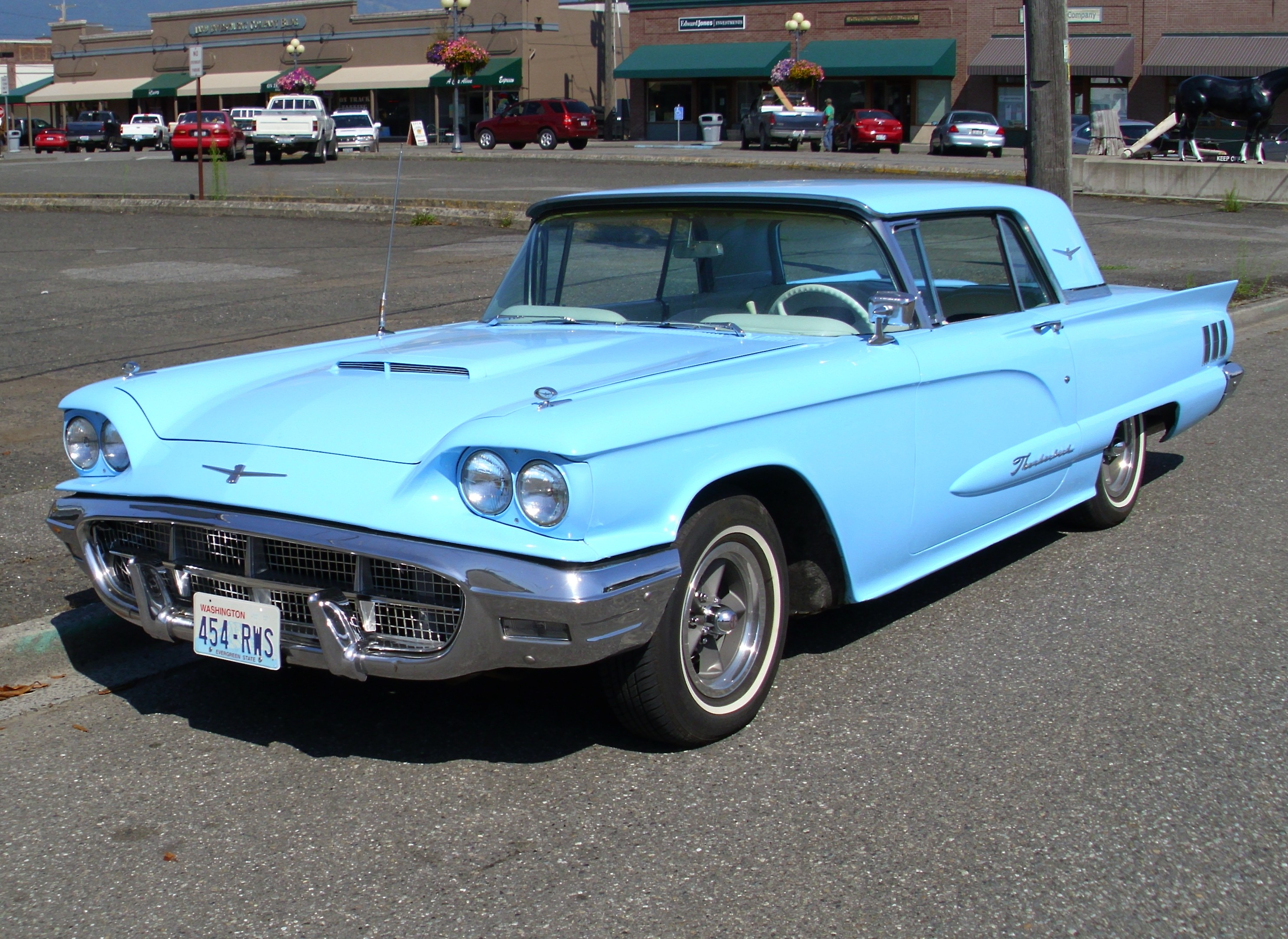 Seen on the street on my Thursday walk around town.